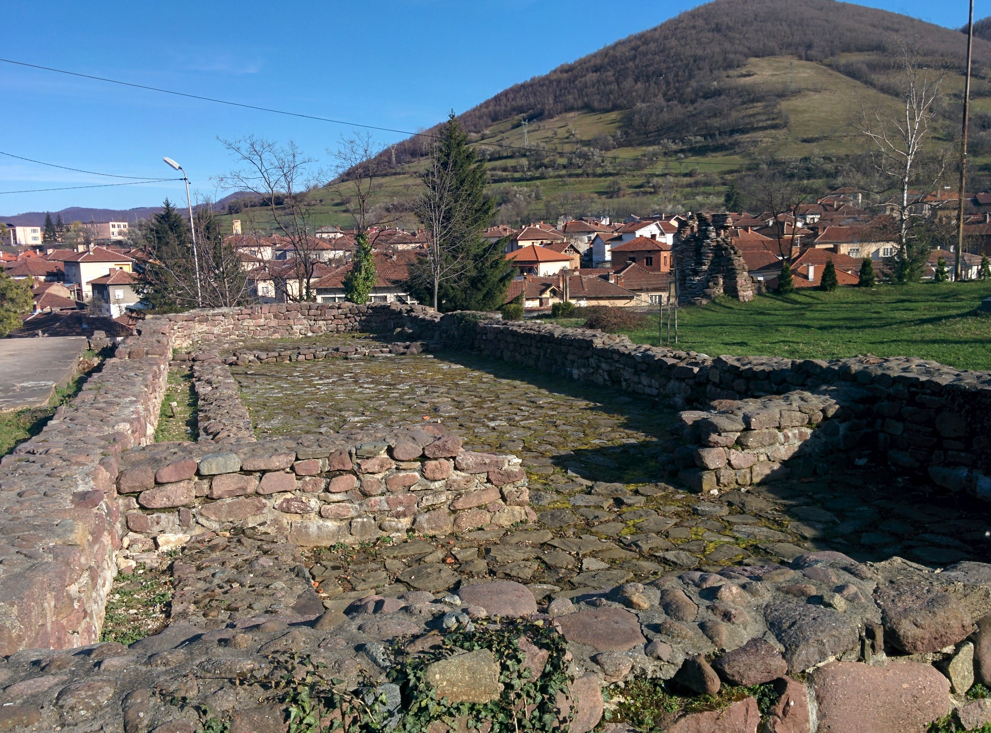 Basilica "Santa Maria", Town of Chiprovtsi, Chiprovtsi Municipality, Montana Province, northwestern Bulgaria